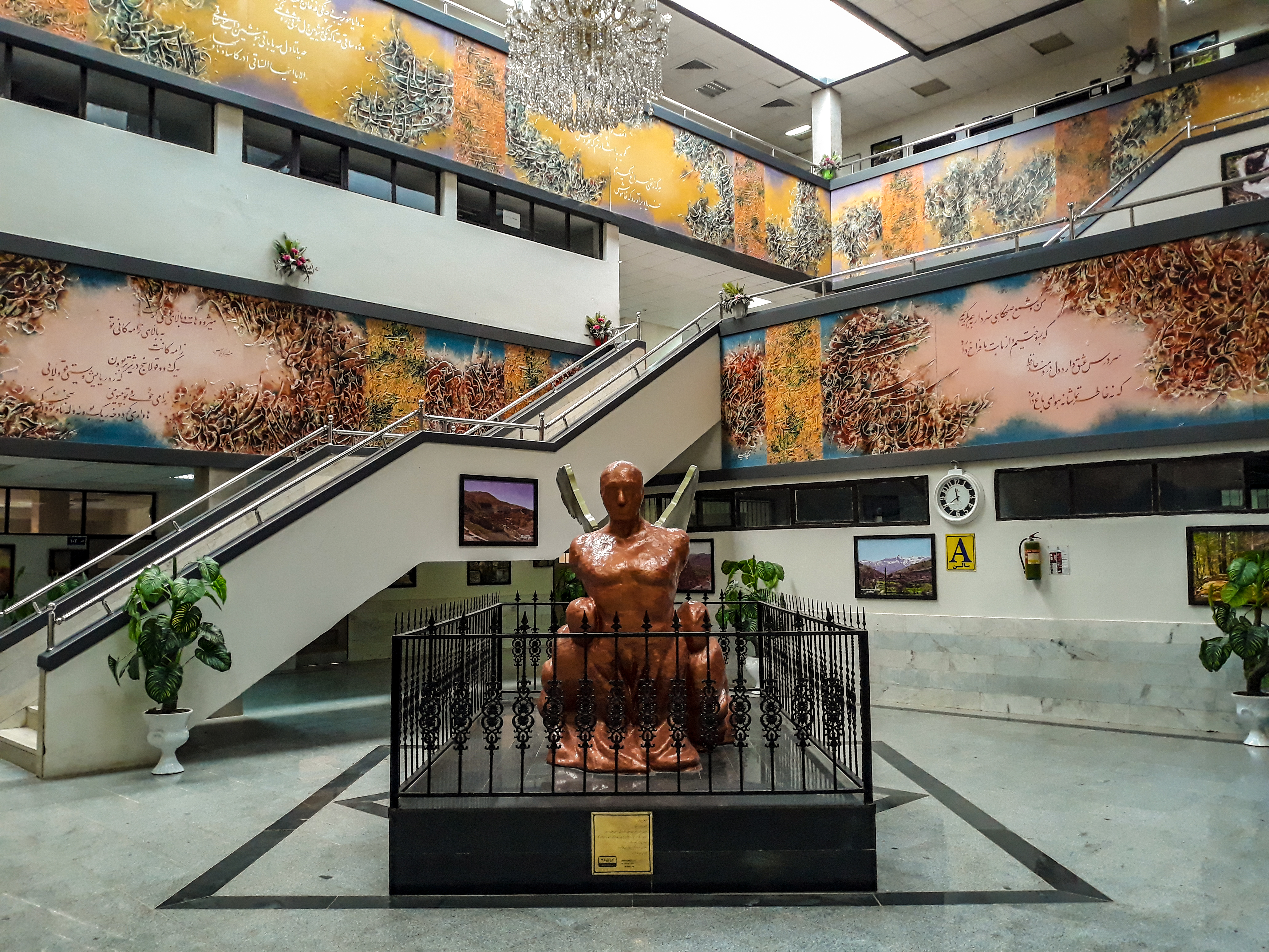 Faculty of Humanities, University of Kurdistan (Iran)